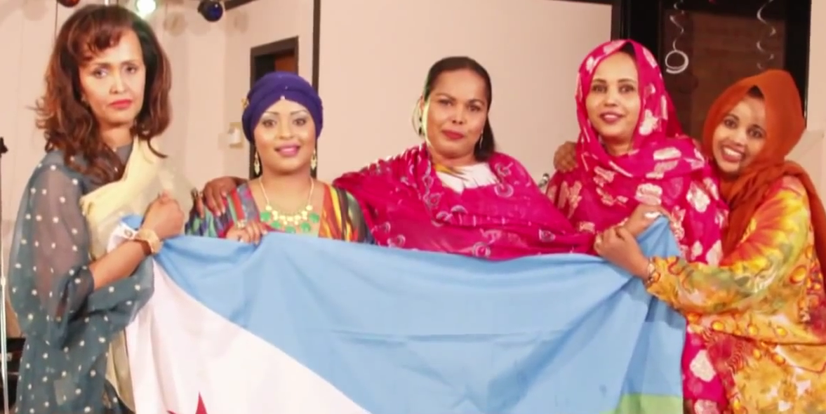 Somali women at a Somali community event in Minneapolis.